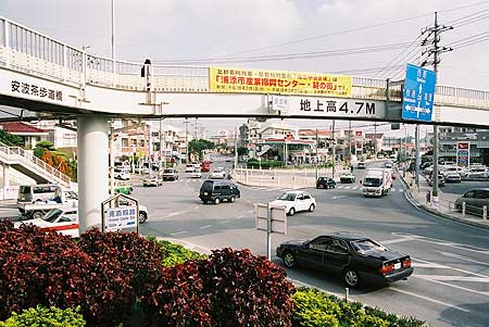 Ahacha Intersection